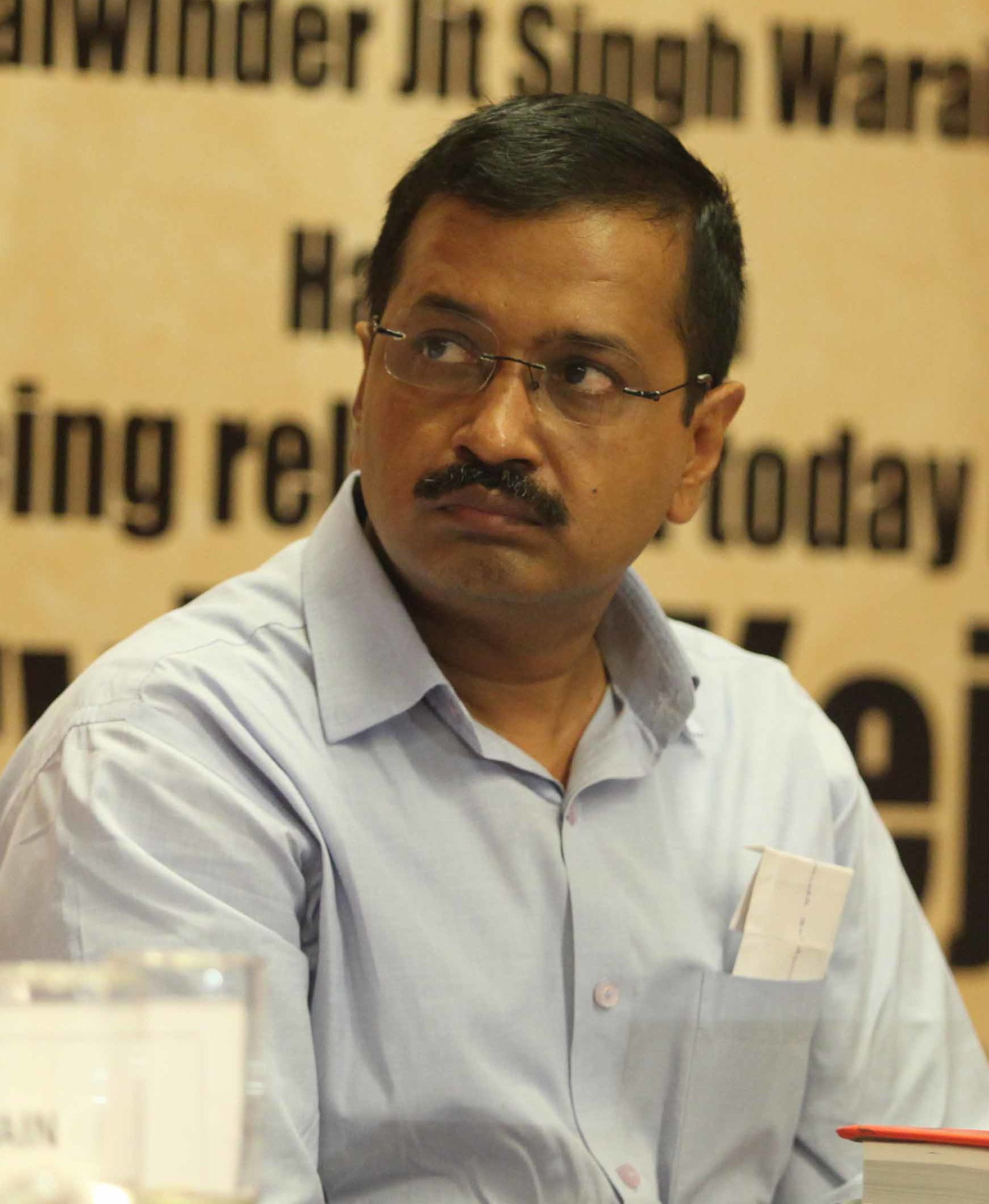 book release